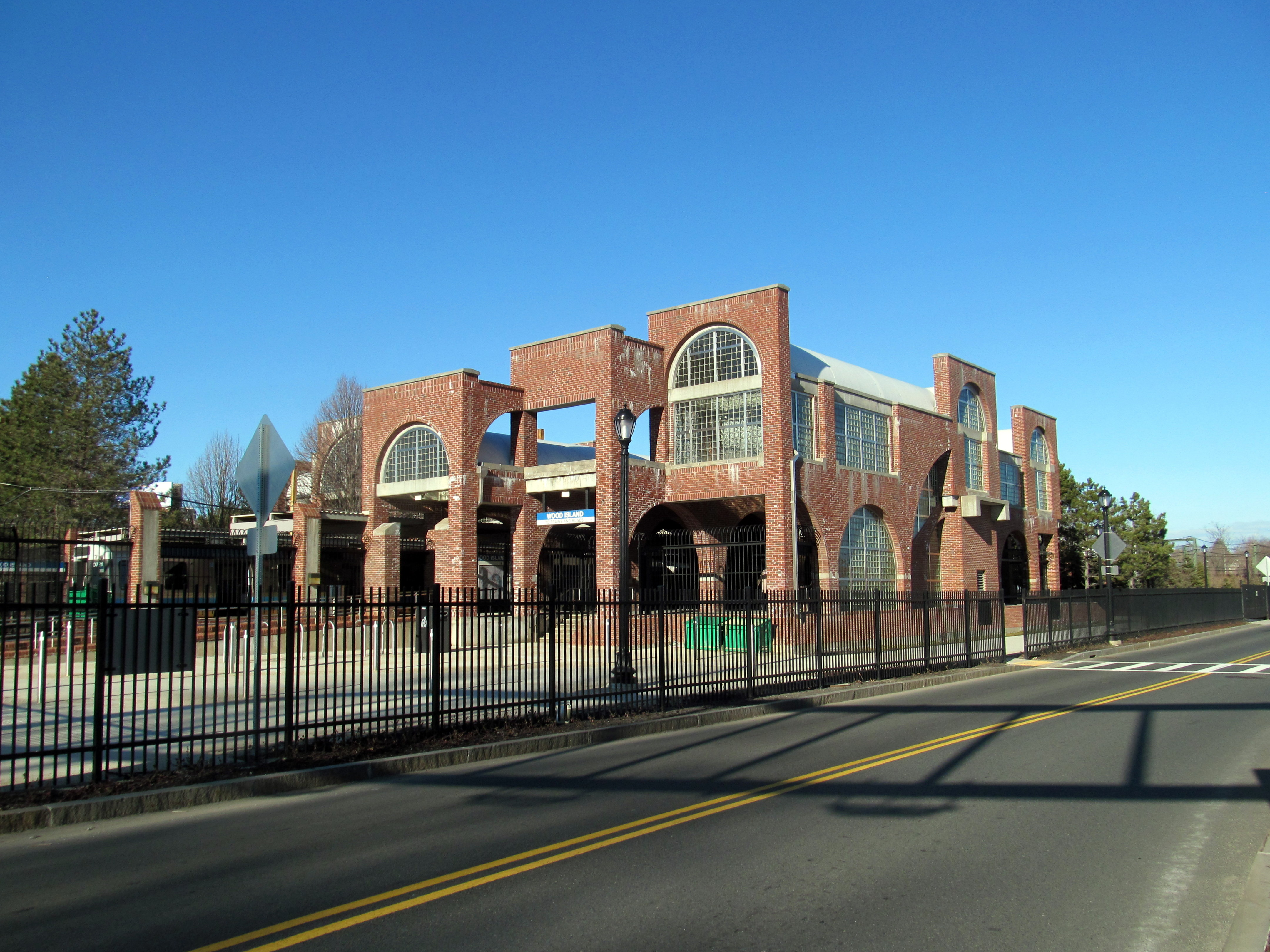 Wood Island station in February 2016